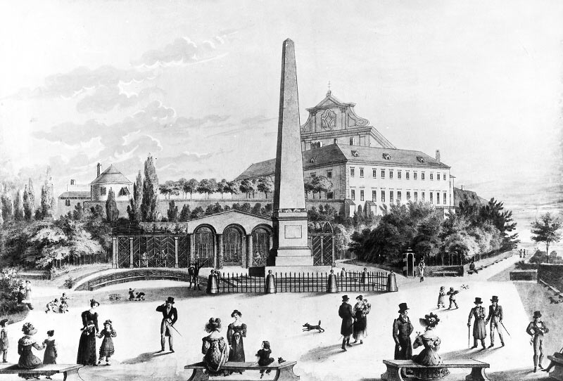 Denis Gardens, Brno, Czech Republic